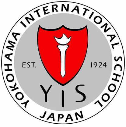 Logo of Yokohama International School